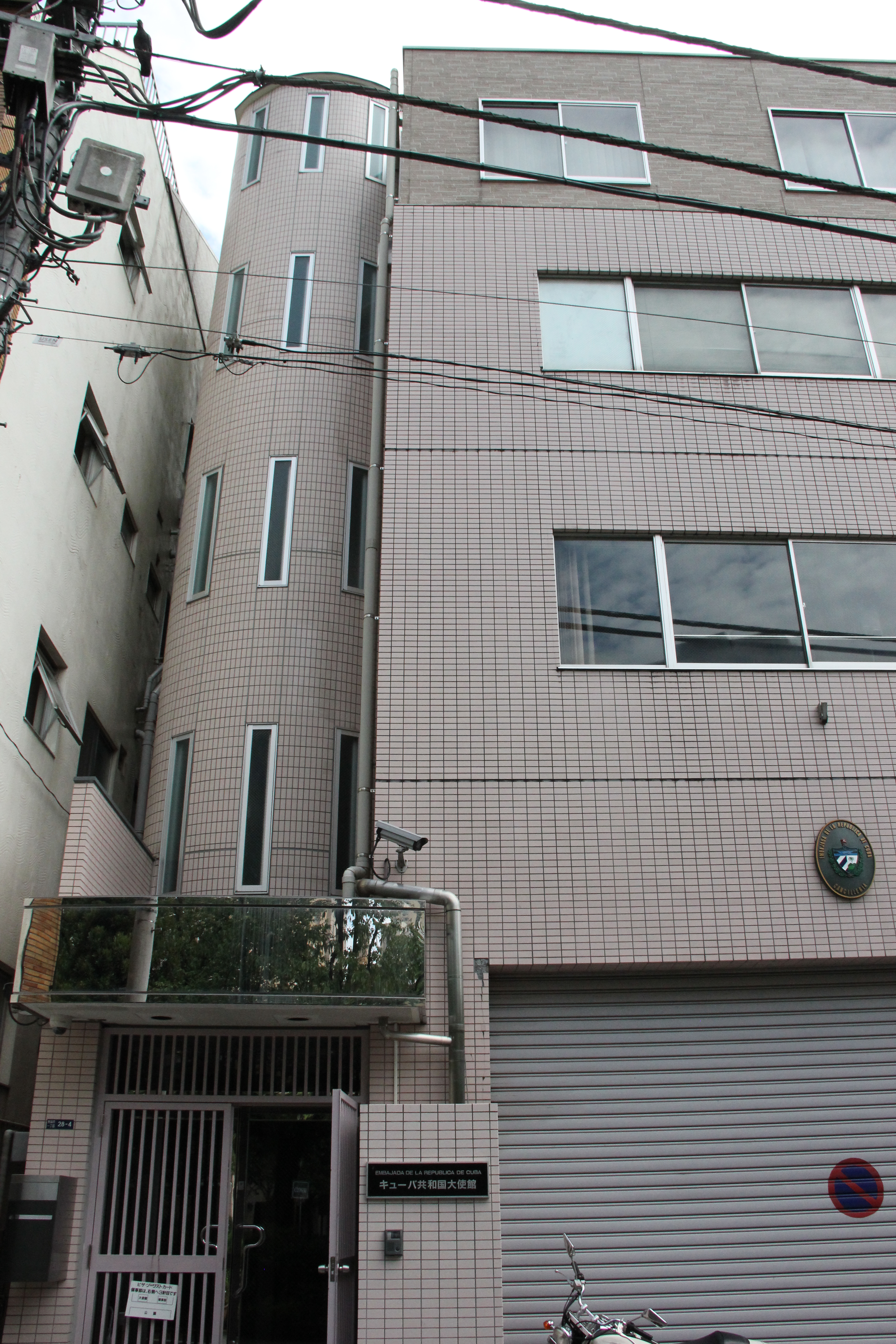 Embassy of Cuba in Tokyo